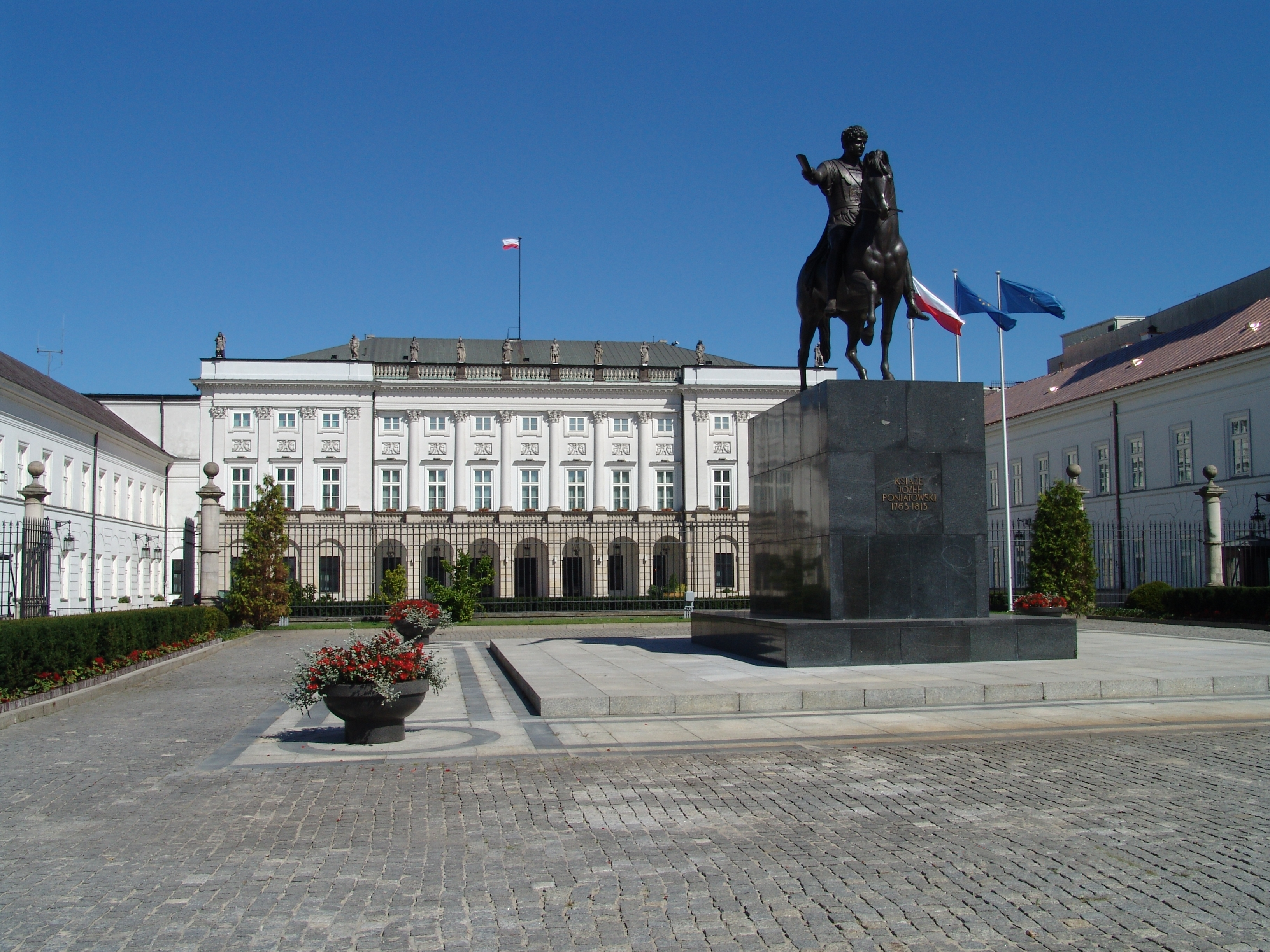 The Presidential Palace in Warsaw, Poland